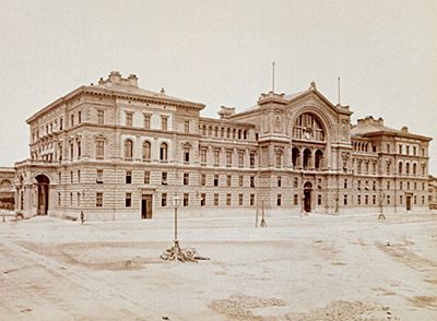 The Northwest Railway Station in Brigittenau, the XX. district of Vienna / Austria / EU. Facade. Picture taken at the corner of Nordwestbahnstraße, Am Tabor. View around 1873. Early photo, building and forecourt are not finished yet.